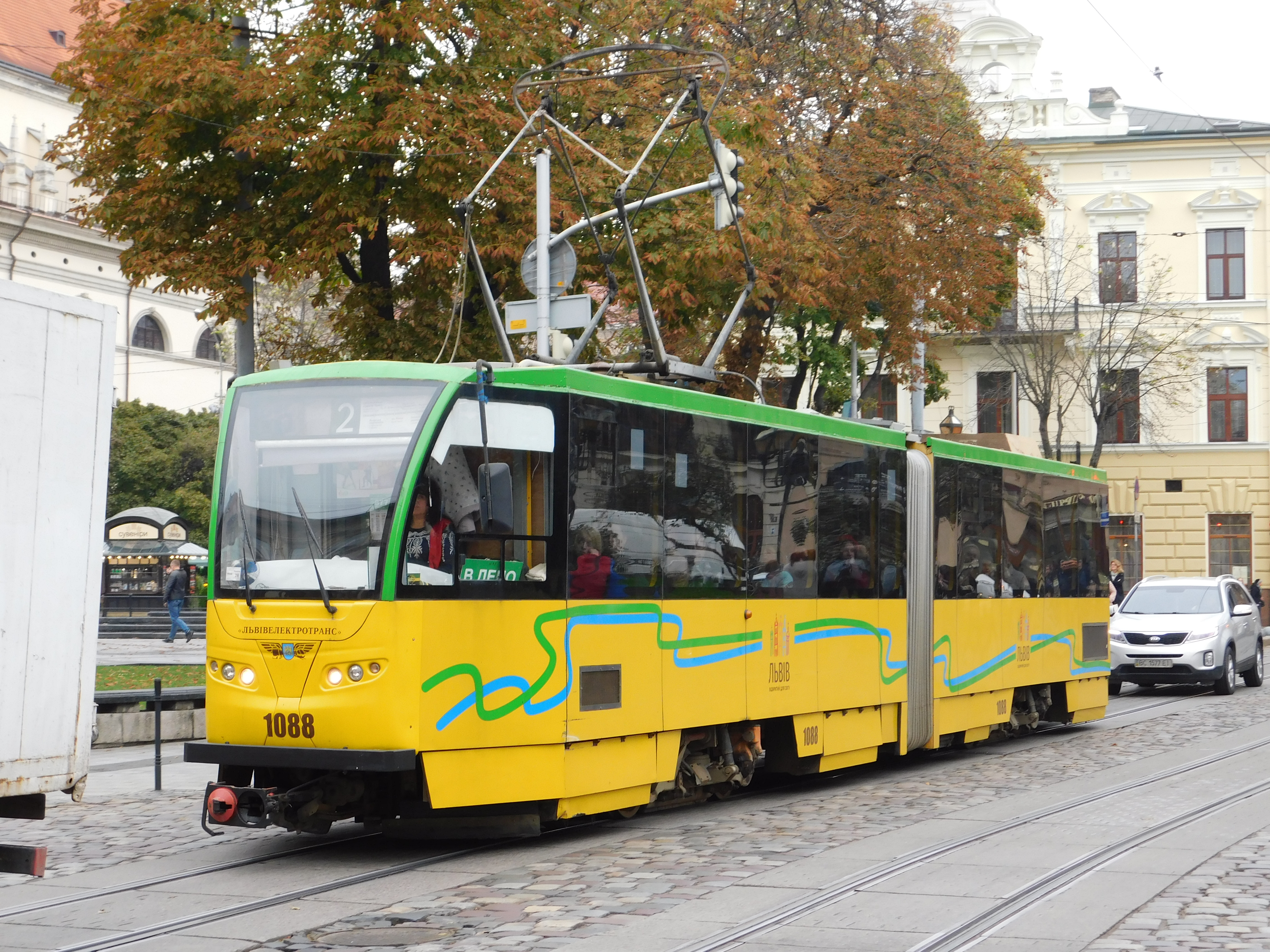 Lviv tram 1088; 09.10.19